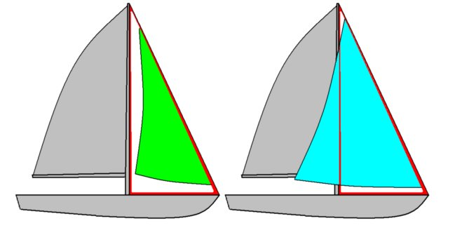 Diagram showing a jib (green) and a genoa (blue) with the foretriangle outlined in red.